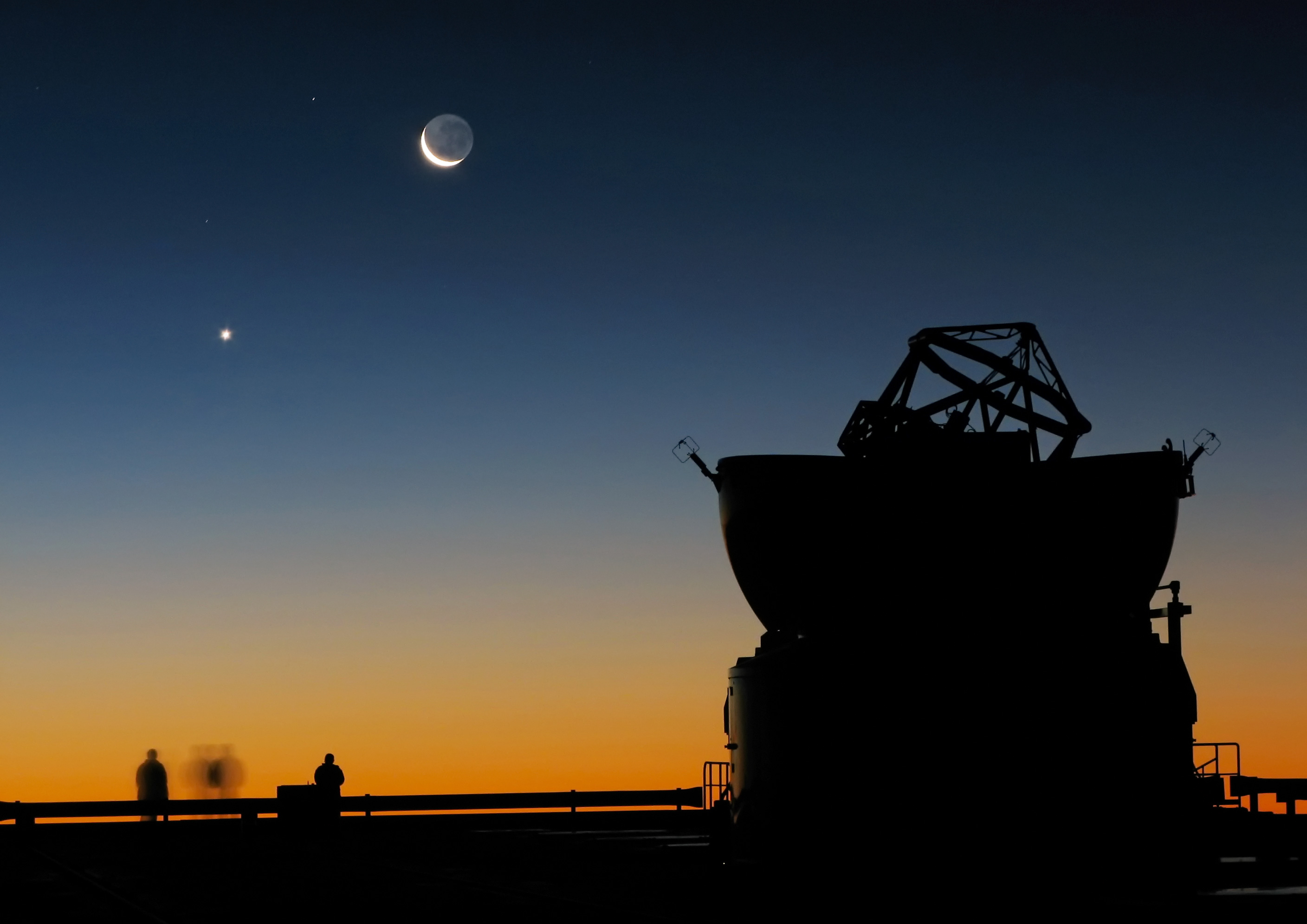 Astronomers enjoying the sunset at Paranal, on ESO’s Very Large Telescope’s platform, just before the beginning of their night-time observations. The dome of one of the VLT’s Auxiliary Telescopes is seen in the foreground. The crescent Moon and, to its left, planet Venus, make for a beautiful scenery.